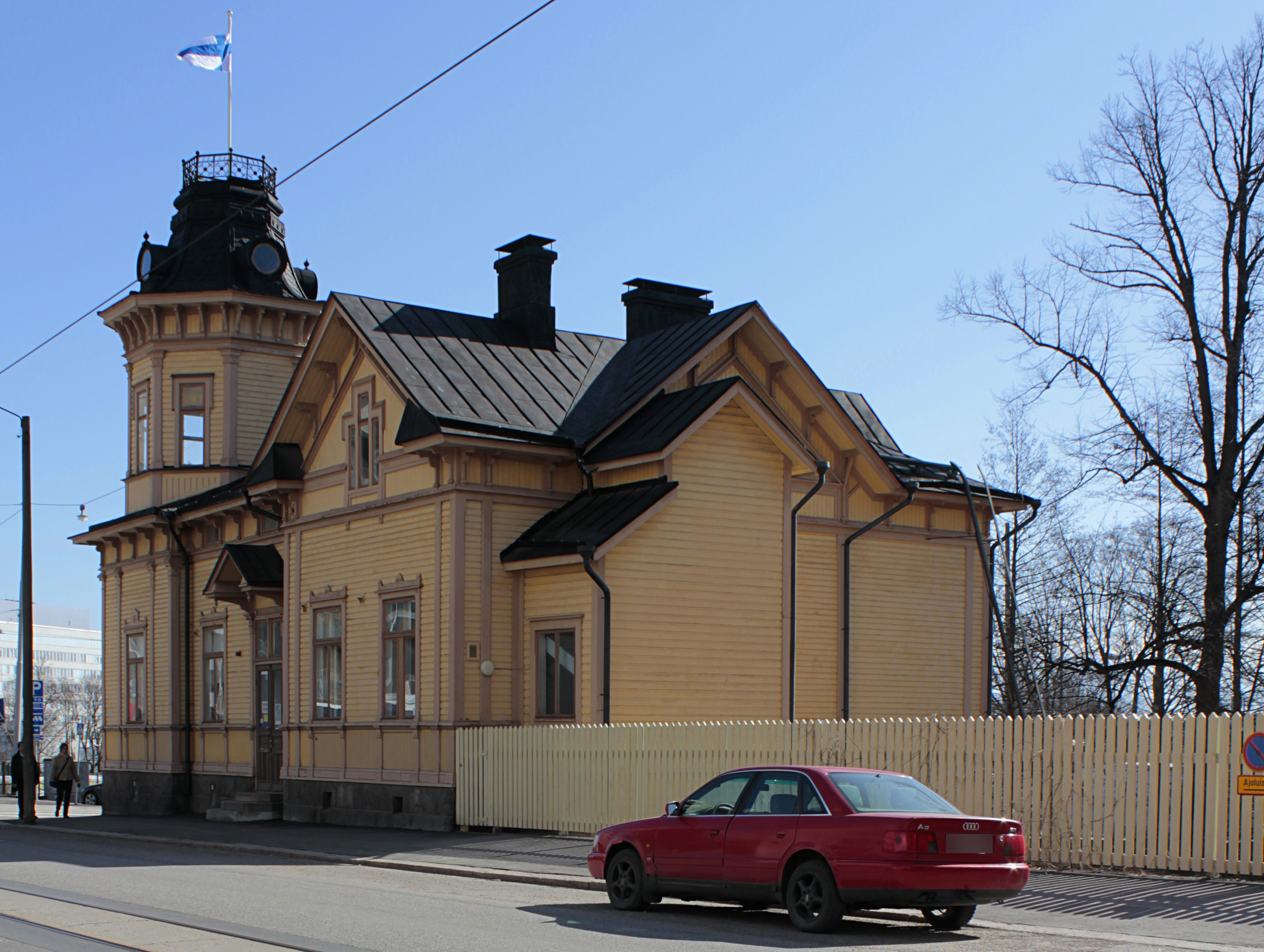 A wooden building (Ernst Lodenius, 1893) by the street Toinen linja in Kallio, Helsinki, Finland. Spring of 2012.